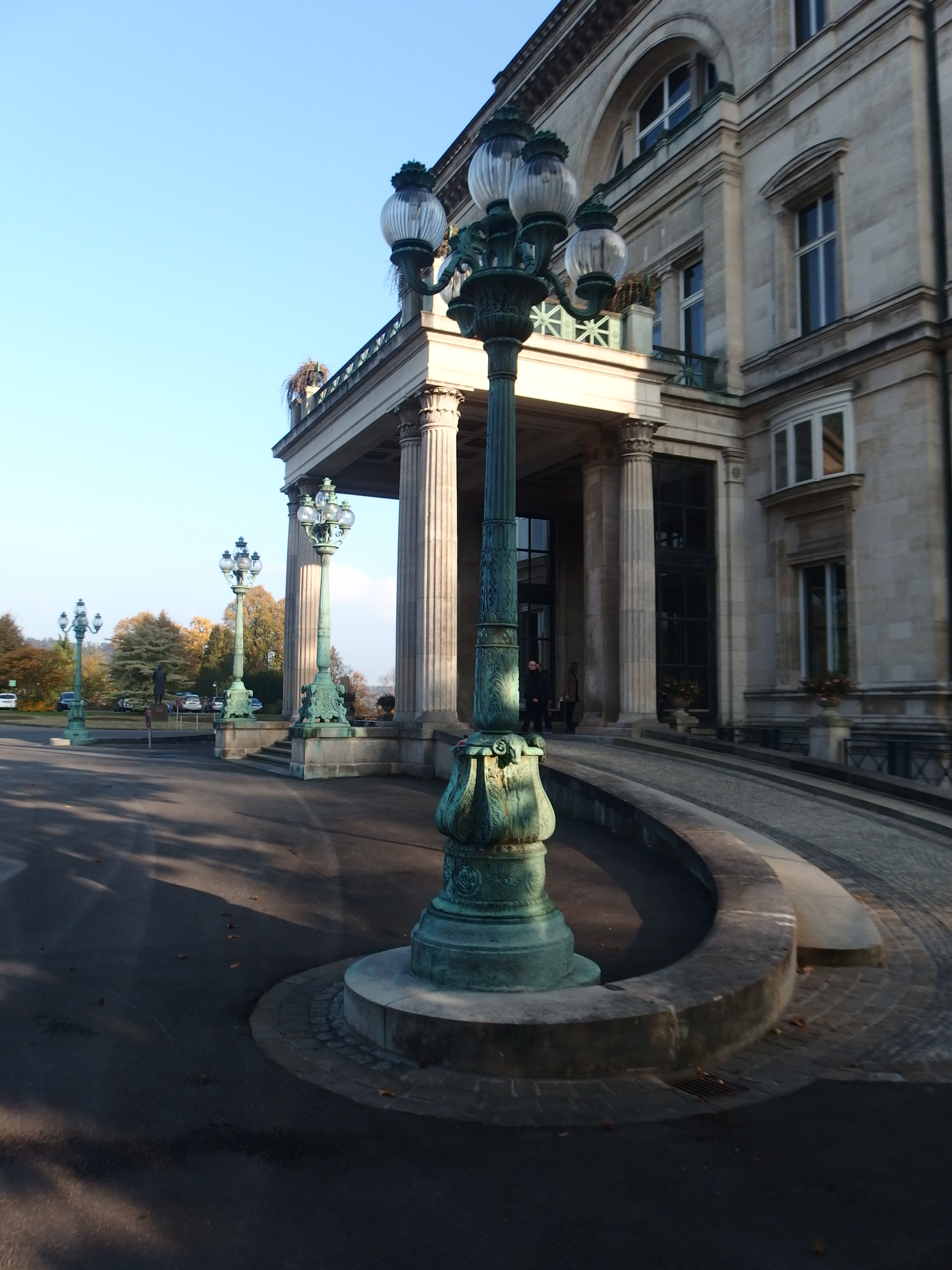 Essen, North Rhine-Westphalia, Germany.